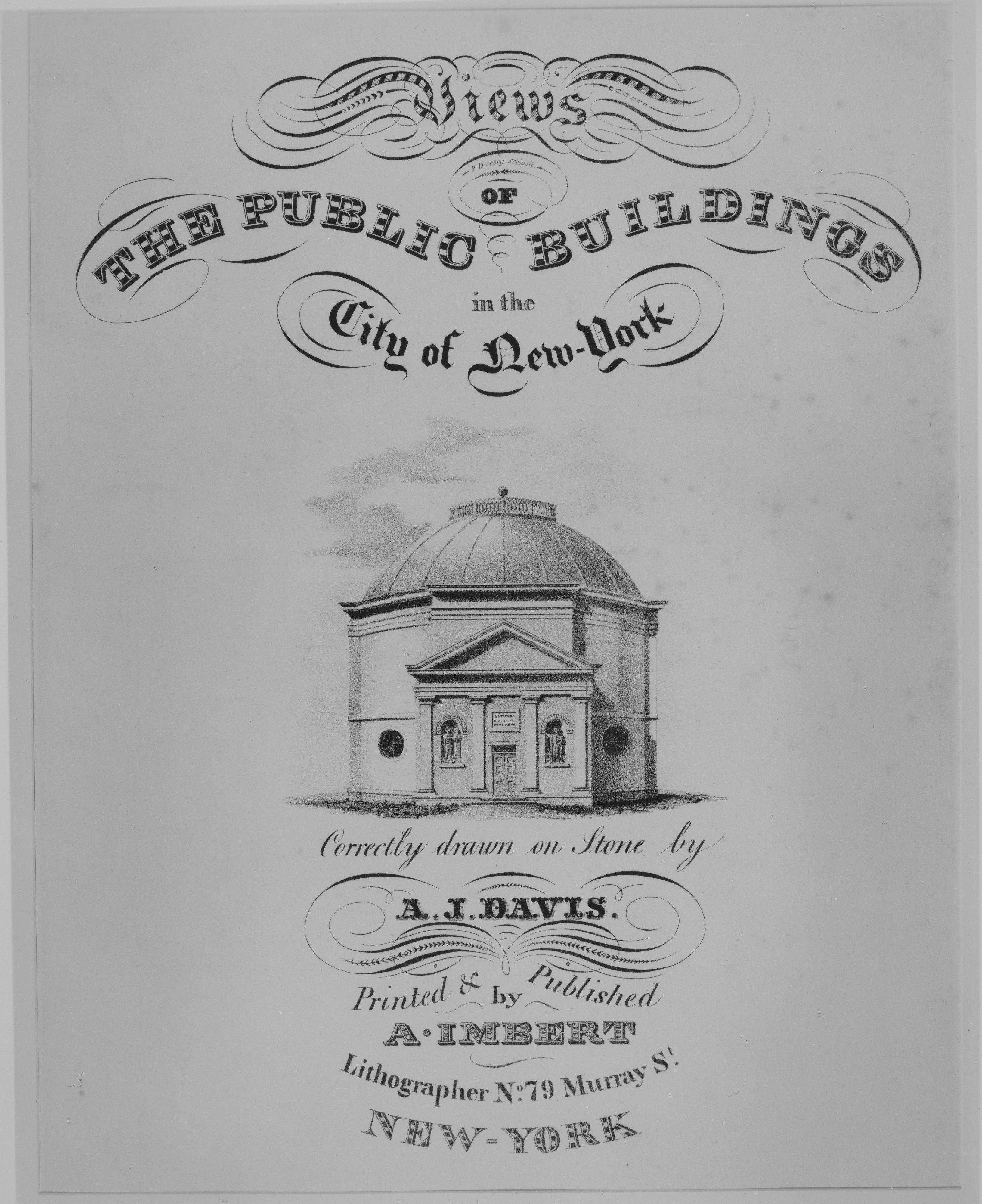 Print; Prints